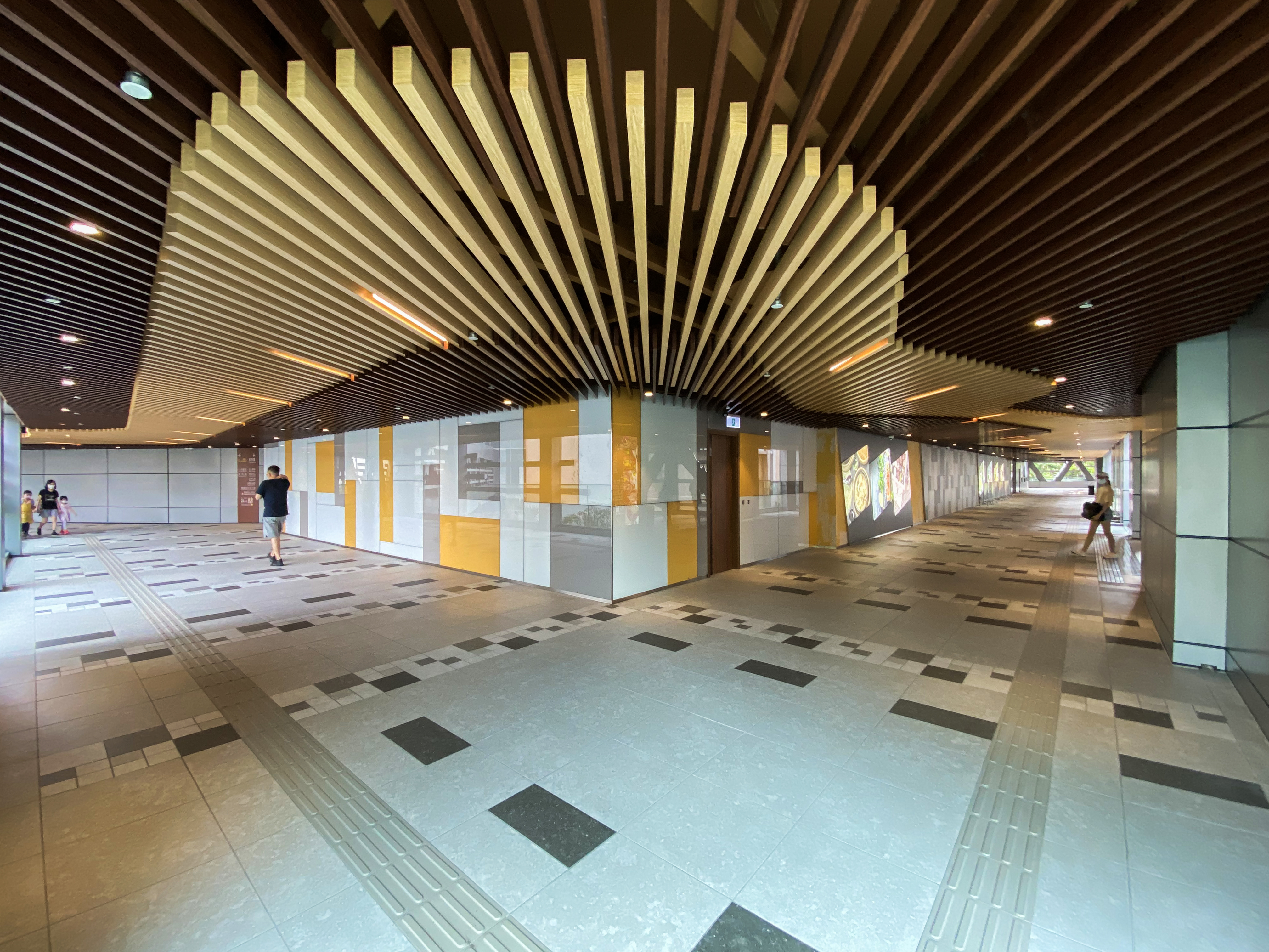 The Aurora 24 hours public access